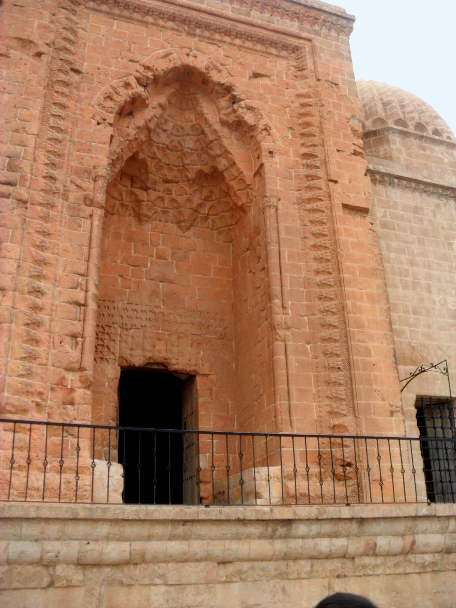 Portal of Kasımiye medrese, Mardin, Turkey